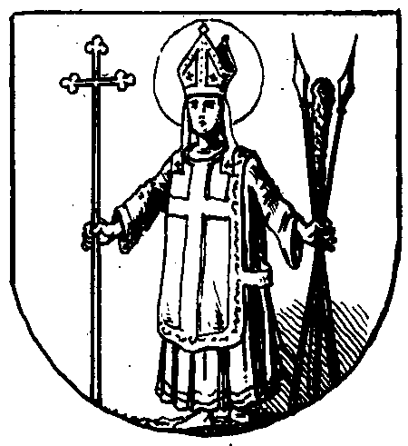 Trzemeszno. Coat of arms